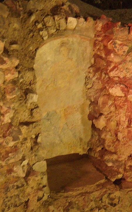 Wall painting in the Roman villa of Lullingstone, two nymphs